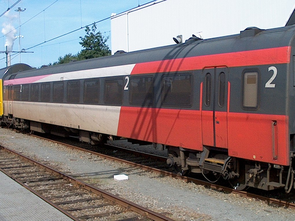 ICR 50 8420-70 581-8 @ Aswplz